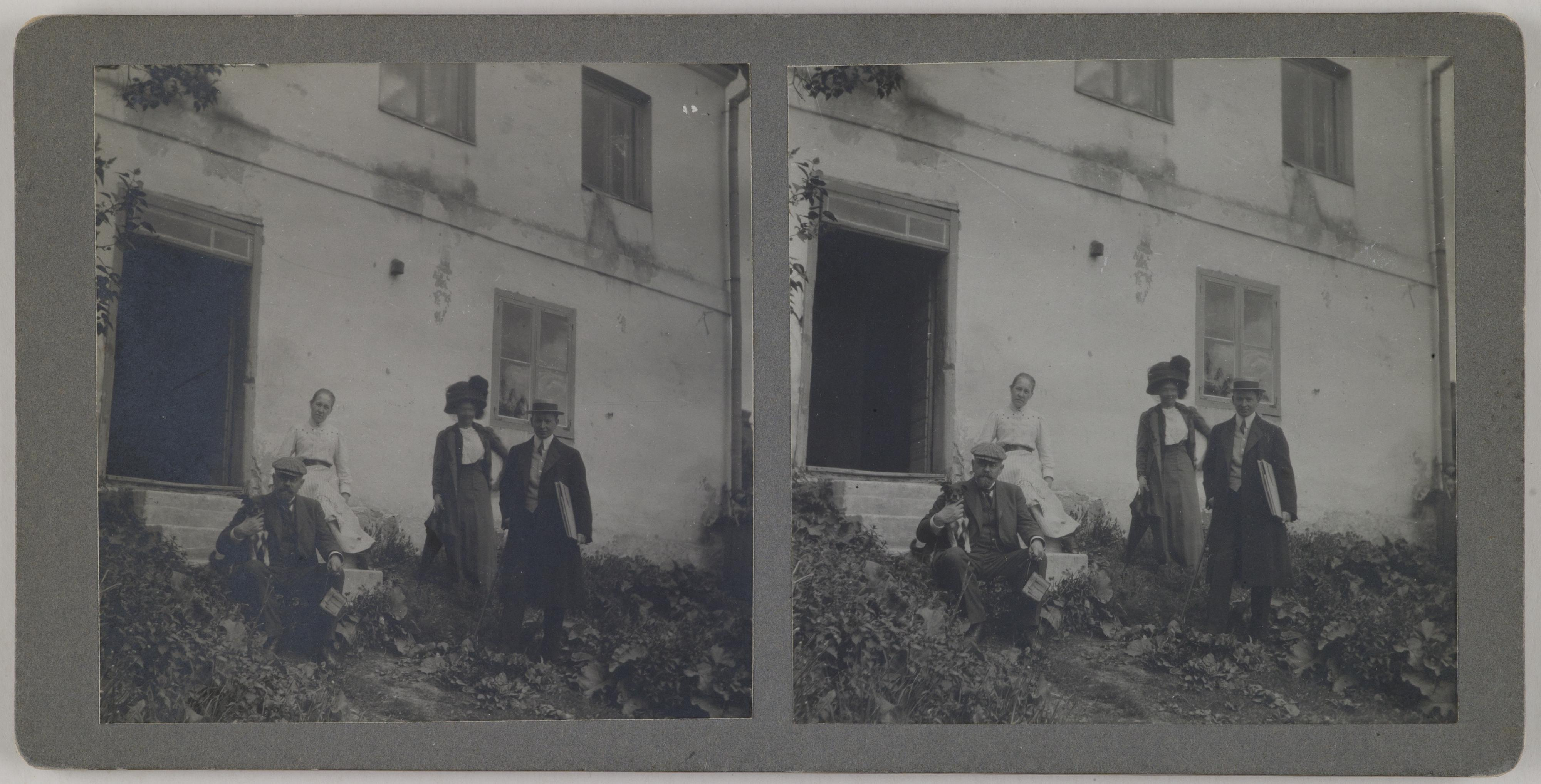 Gallen-Kallelat asuntoa etsimässä Porvoossa, nykyisen Svenska hemmetin edessä 1911. Vasemmalta Walter Sjöberg, talossa asuva rouva, Mary Gallen-Kallela ja Eliel Saarinen. kuvauspaikka: Porvoo ajoitus: 1911 kuvaaja: Akseli Gallen-Kallela kummankin kuvan mitat: 78x78mm tekniikka: merkintöjä: "Nyk. Svenska hemmet Borgå / Isä etsi asuntoa ja aikoi ostaa sen mutta siellä oli silloin 1911 teurastamo ja äiti sanoi hyi. Vas. Walter Sjöberg talon asukas rouva, Mary Gallén ja Eliel Saarinen. Foto Axel Gallén." inventointinumero: Kot. 2/40 kokoelma: Akseli Gallen-Kallelan valokuvakokoelma tutki lisää / explore further: Tiedätkö lisää tästä kuvasta? Kerro meille! Do you have information on this photo? Let us know!